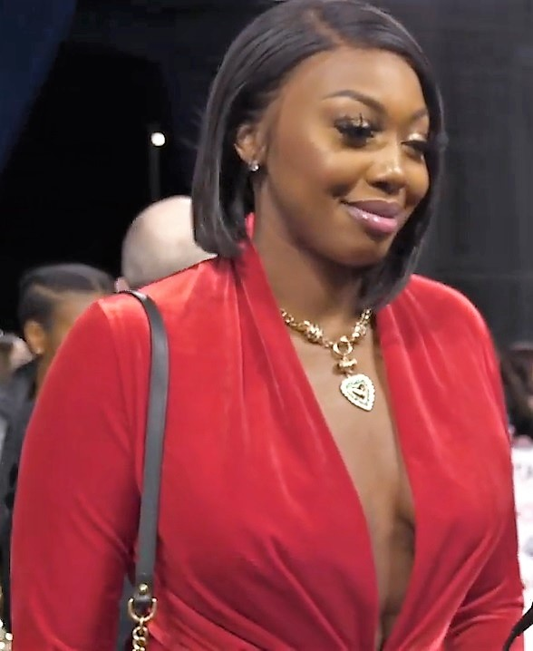 UK rapper Ms Banks interviewed by UKGossip TV at the National Television Awards Highlights of the National Television awards 2020 with Jourds @Jourds_ had the pleasure of gracing the NTA's red carpet at the o2 arena, inteviewing our much loved tv reality stars! Filmed and edited by @Jojobami